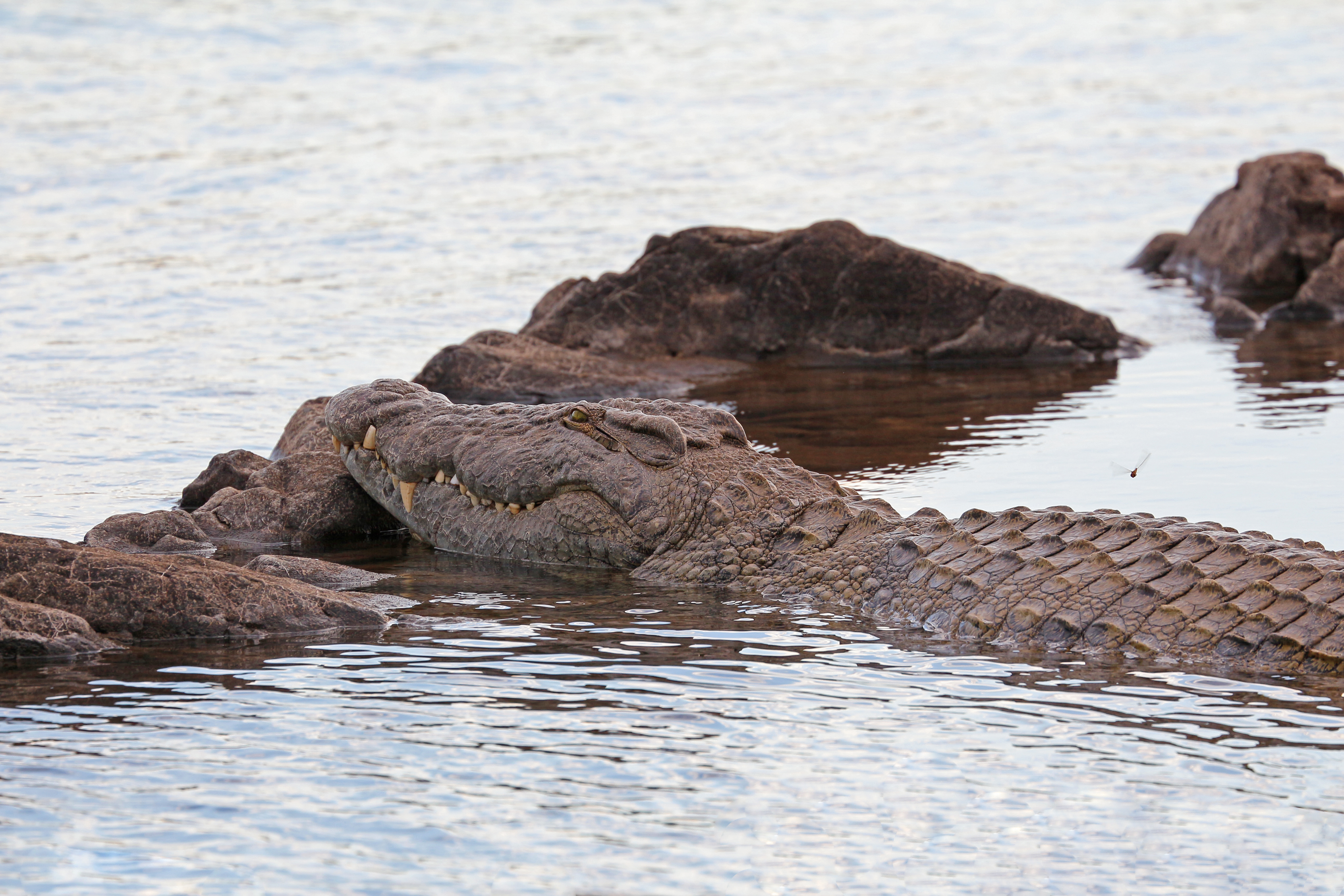 Nile crocodile (Crocodylus niloticus) in the Zambezi River , Zimbabwe